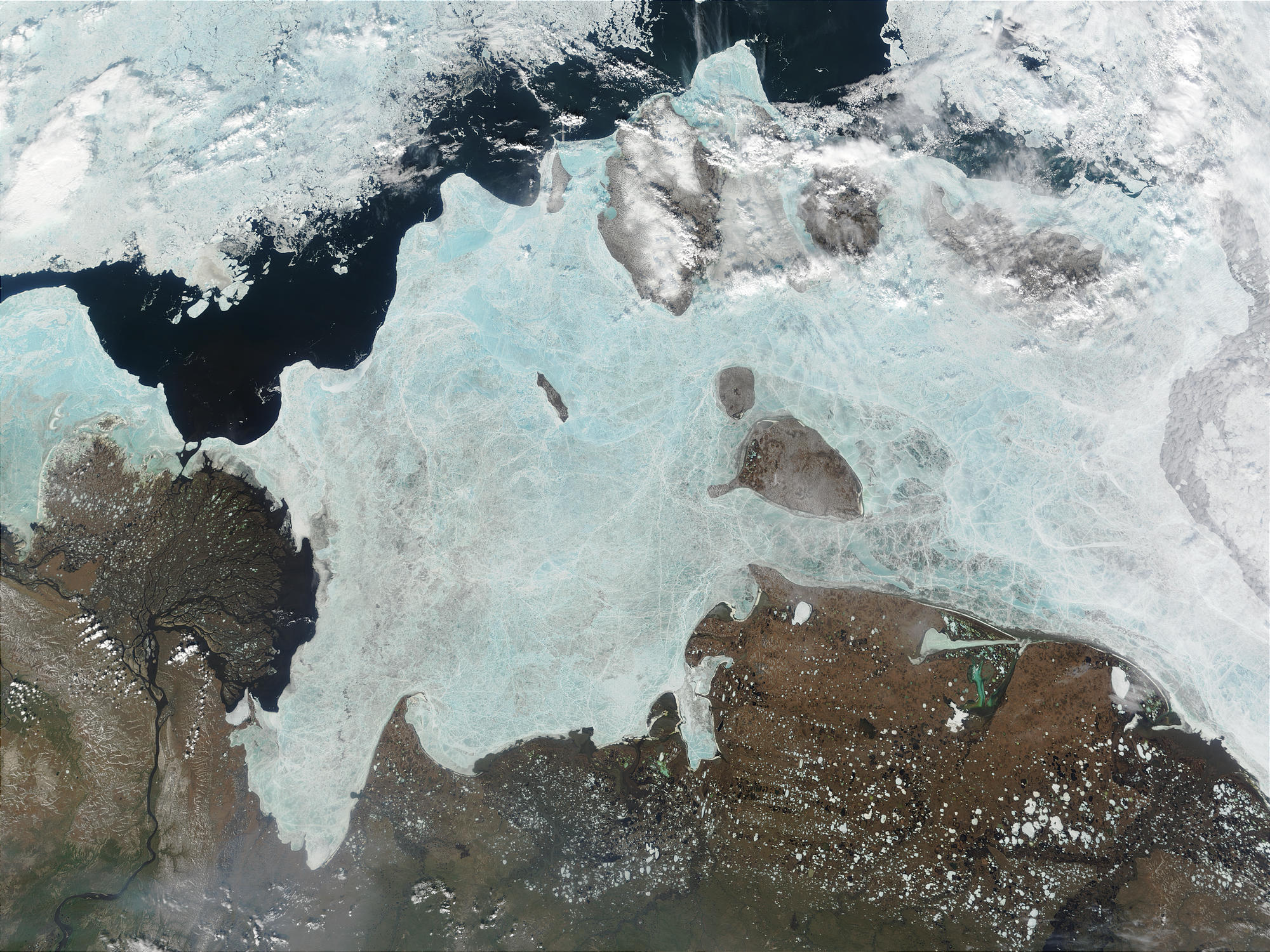 New Siberian Islands. June 23, 2002